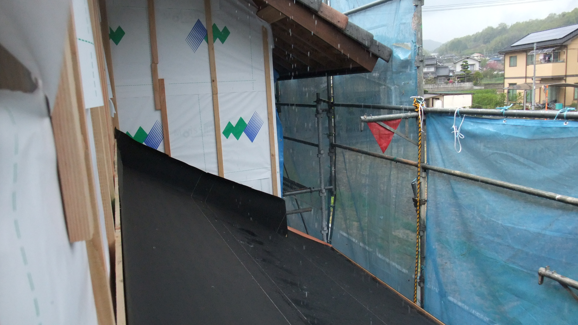 asphalt roofing、tar paper